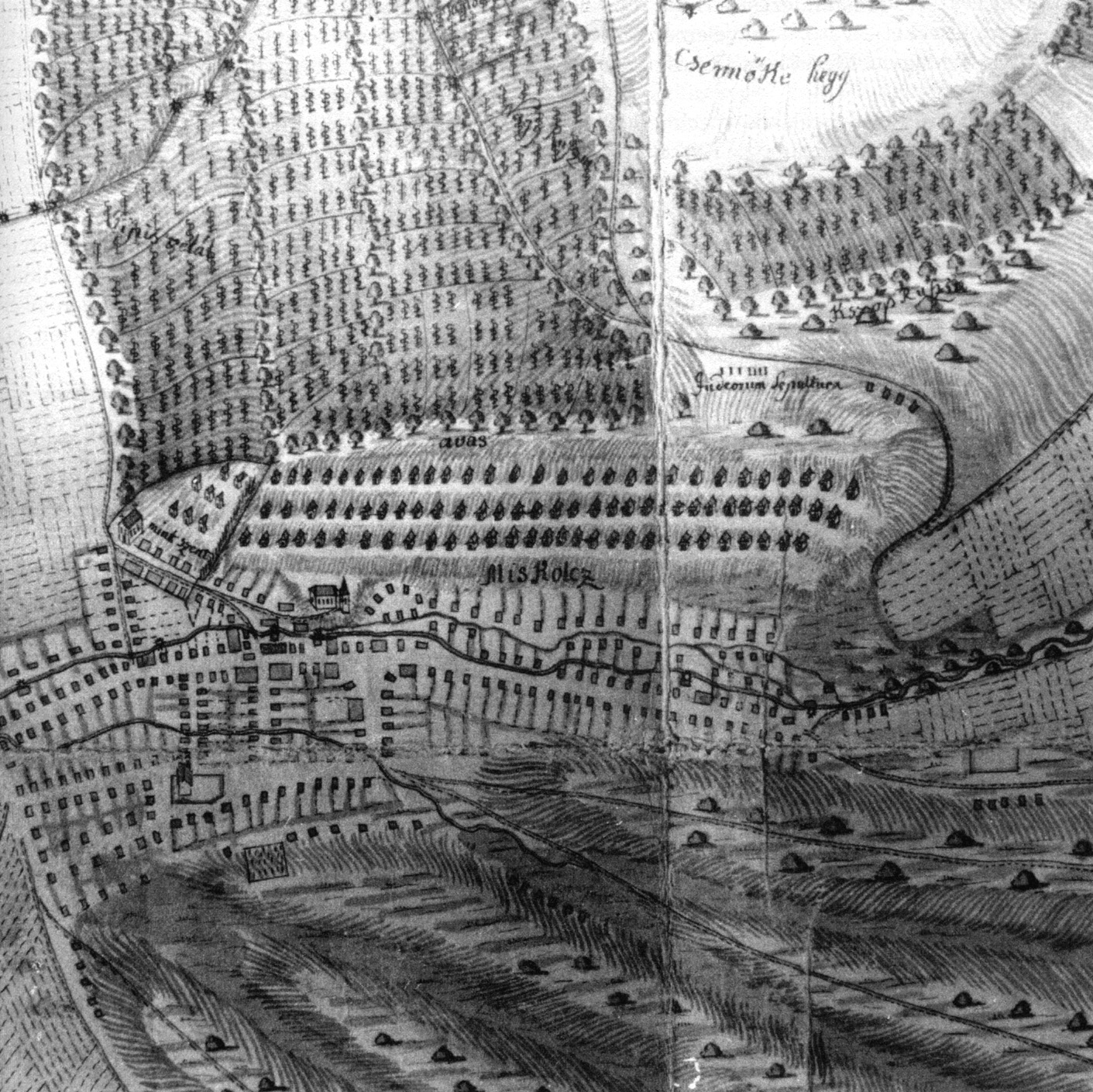 Old map of Miskolc from 1759, Hungary